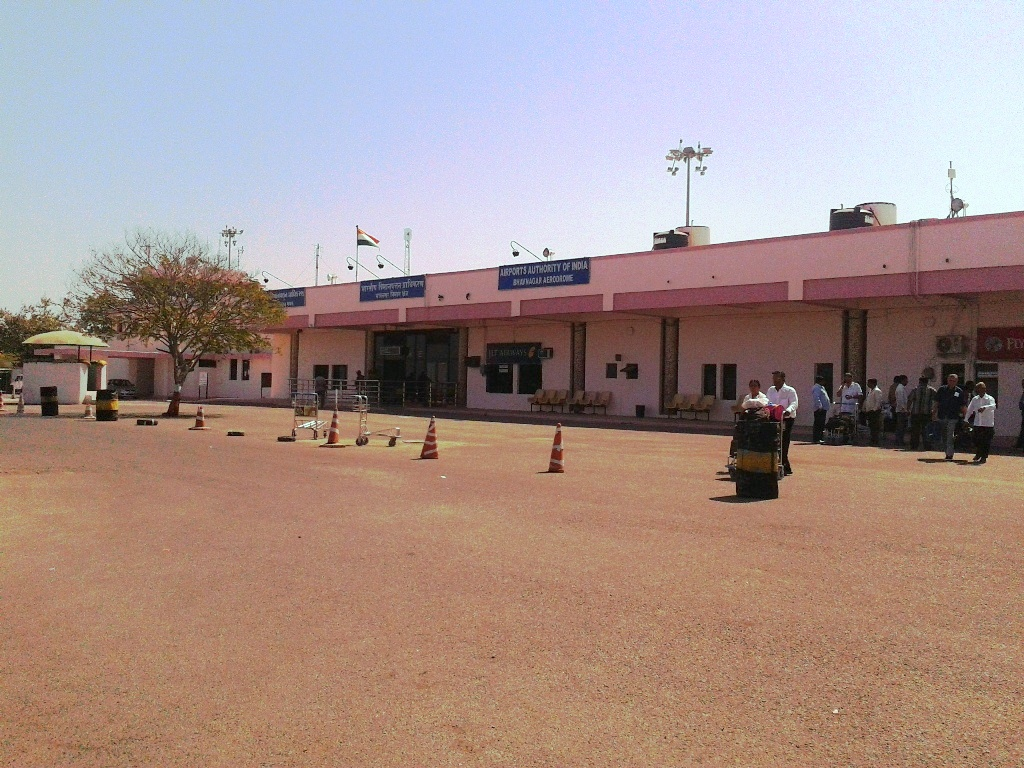 View of Bhavnagar airport Terminal building